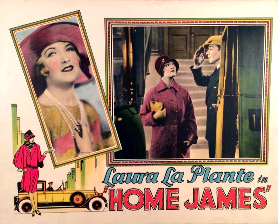 Lobby card for the American comedy film Home, James (1928). There are no copyright marks on the card. In the photo frame at center is Country of origin and production USA. (Just above "Laura")